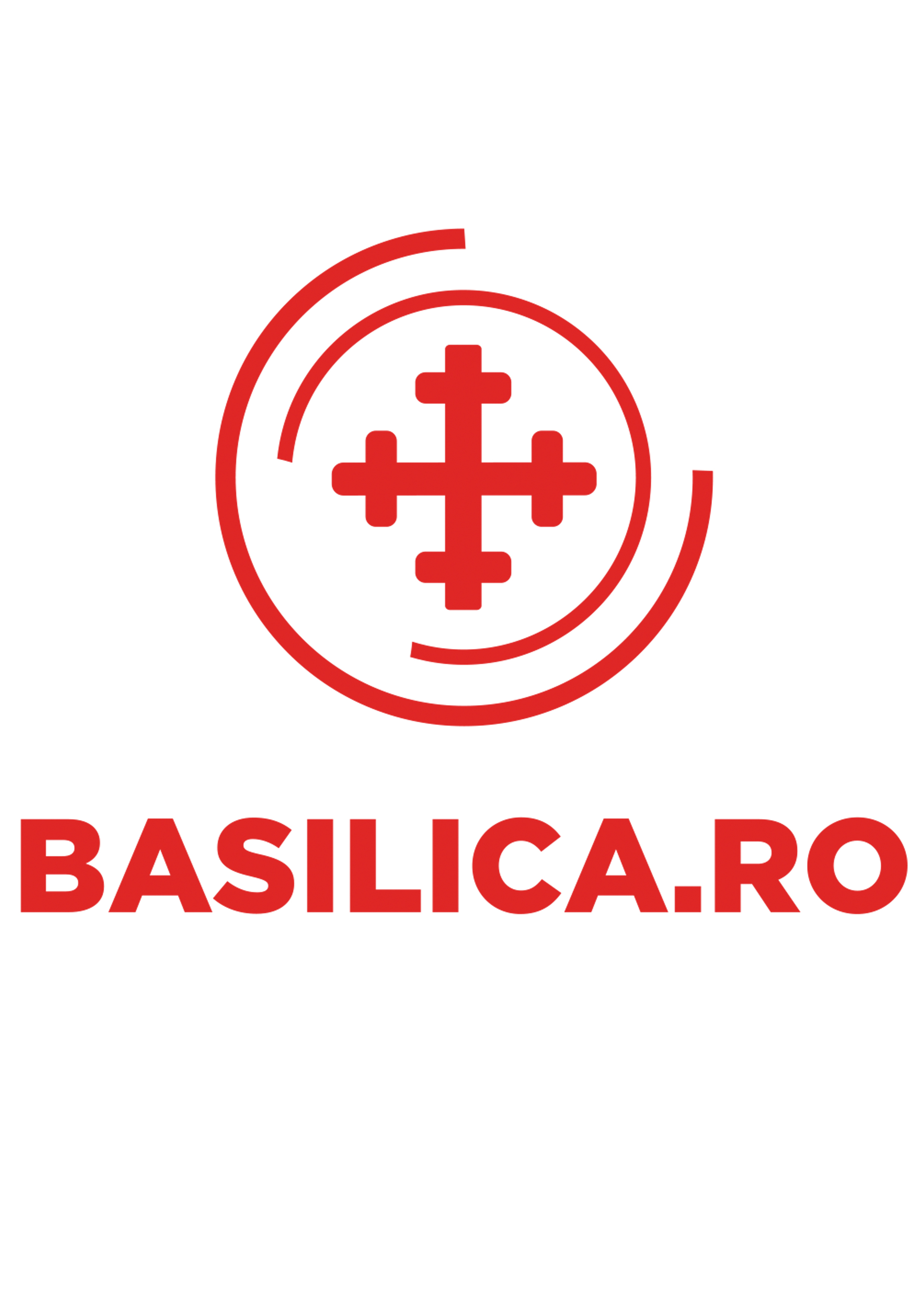 This is the logo of Basilica News Agency